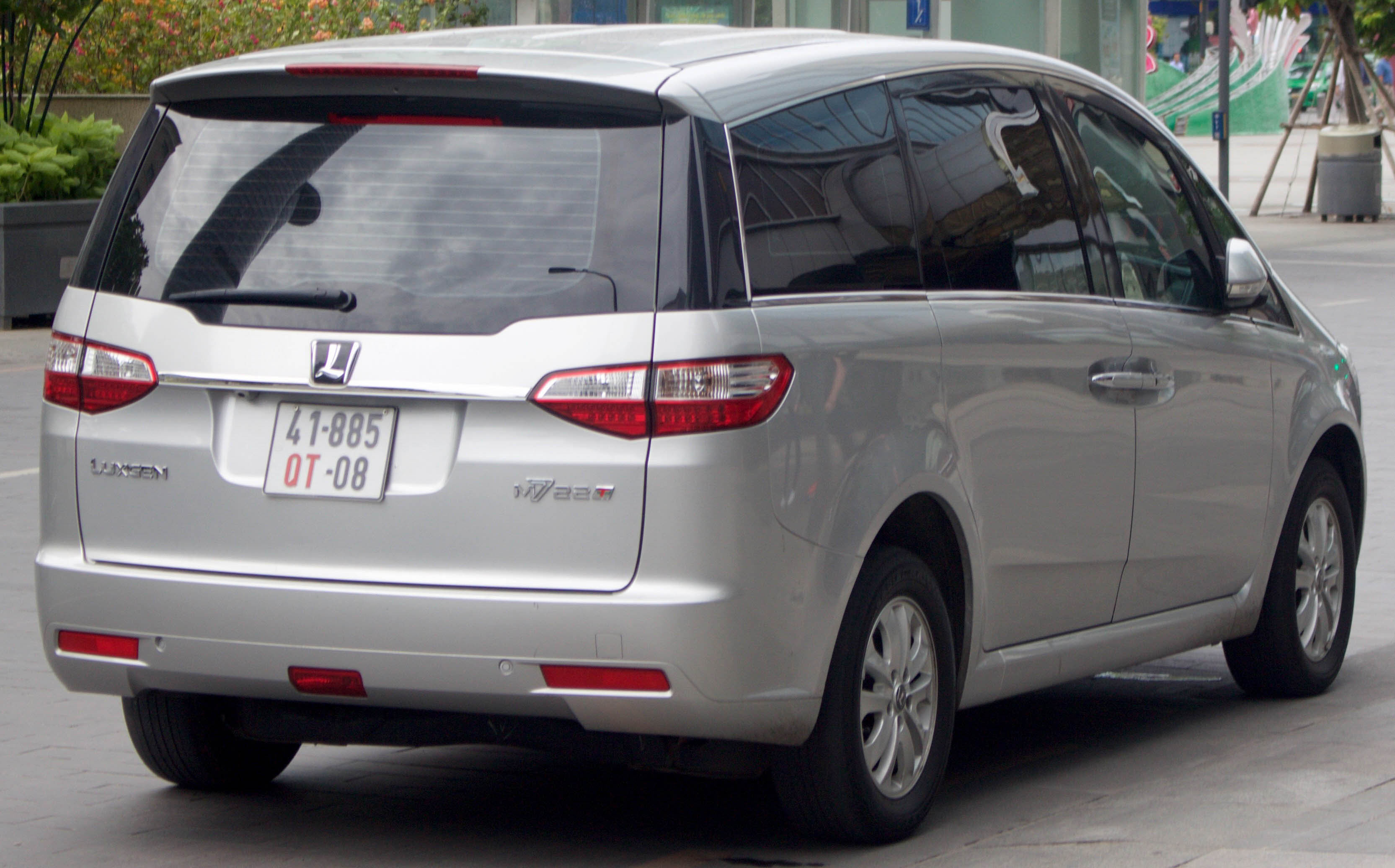 Luxgen7 2.2 MPV in Ho Chi Minh, Vietnam